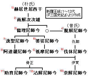 the geneology of Silla( 1st King ~ 12th King) / 新羅王系図(初代～12代)